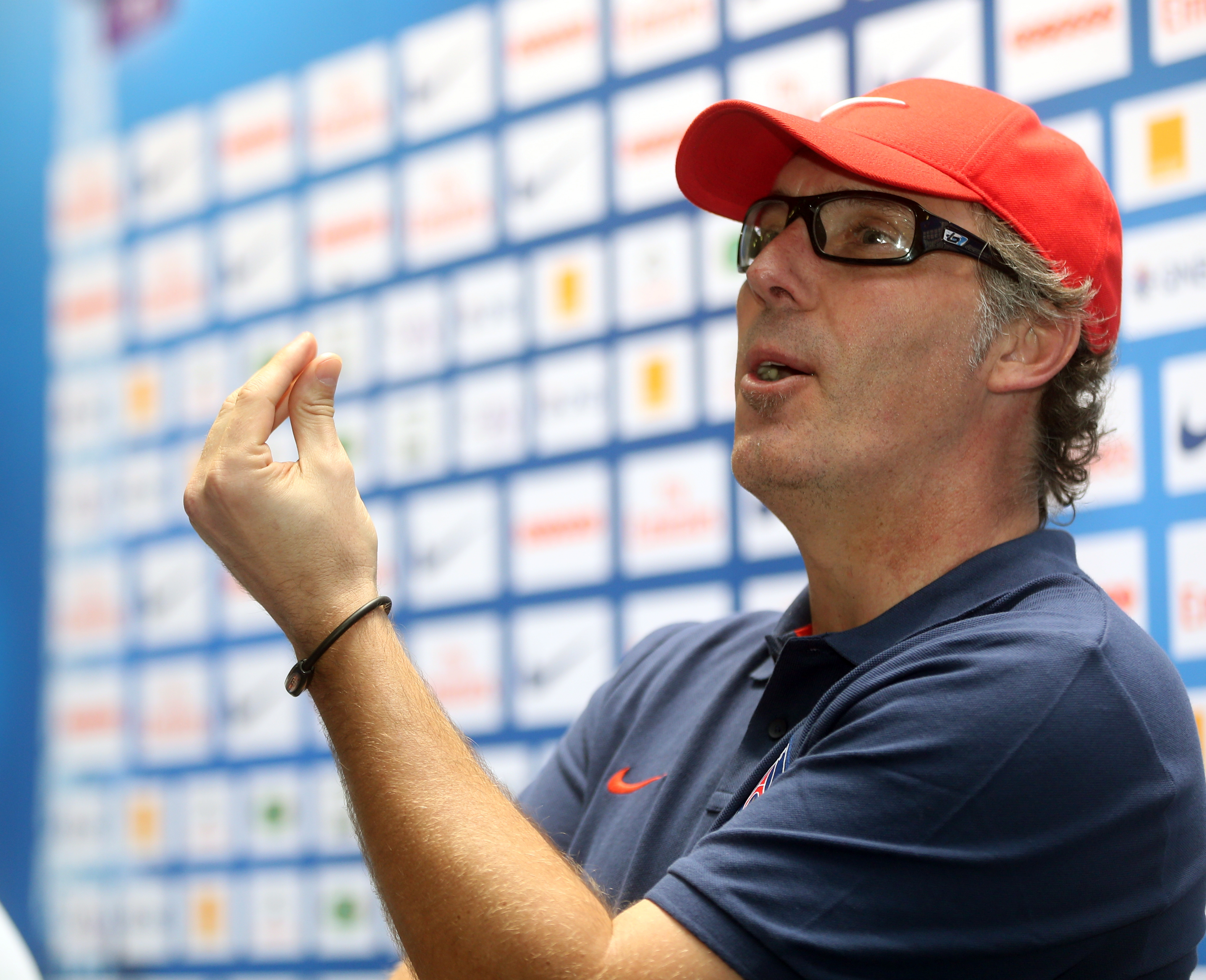 Paris Saint-Germain coach Laurent Blanc attends a Press conference in Doha. Pic by Mohan